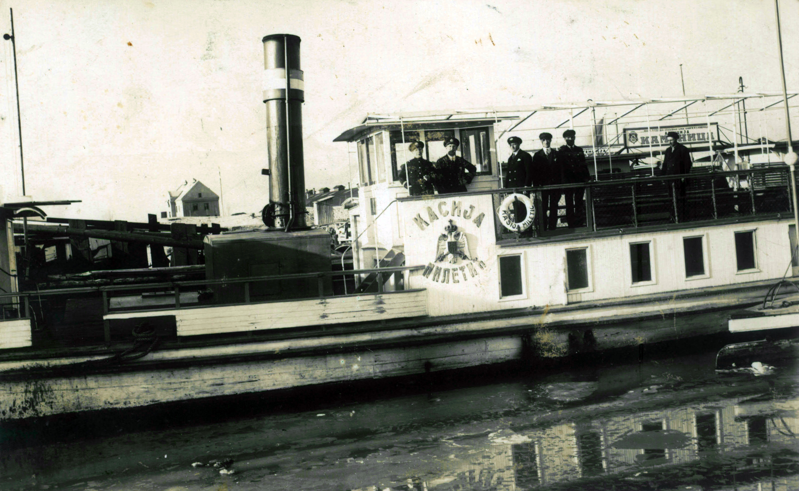 Passenger sreamboat Kasija Miletić in winter home in Novi Sad. Photo from 1929. year.